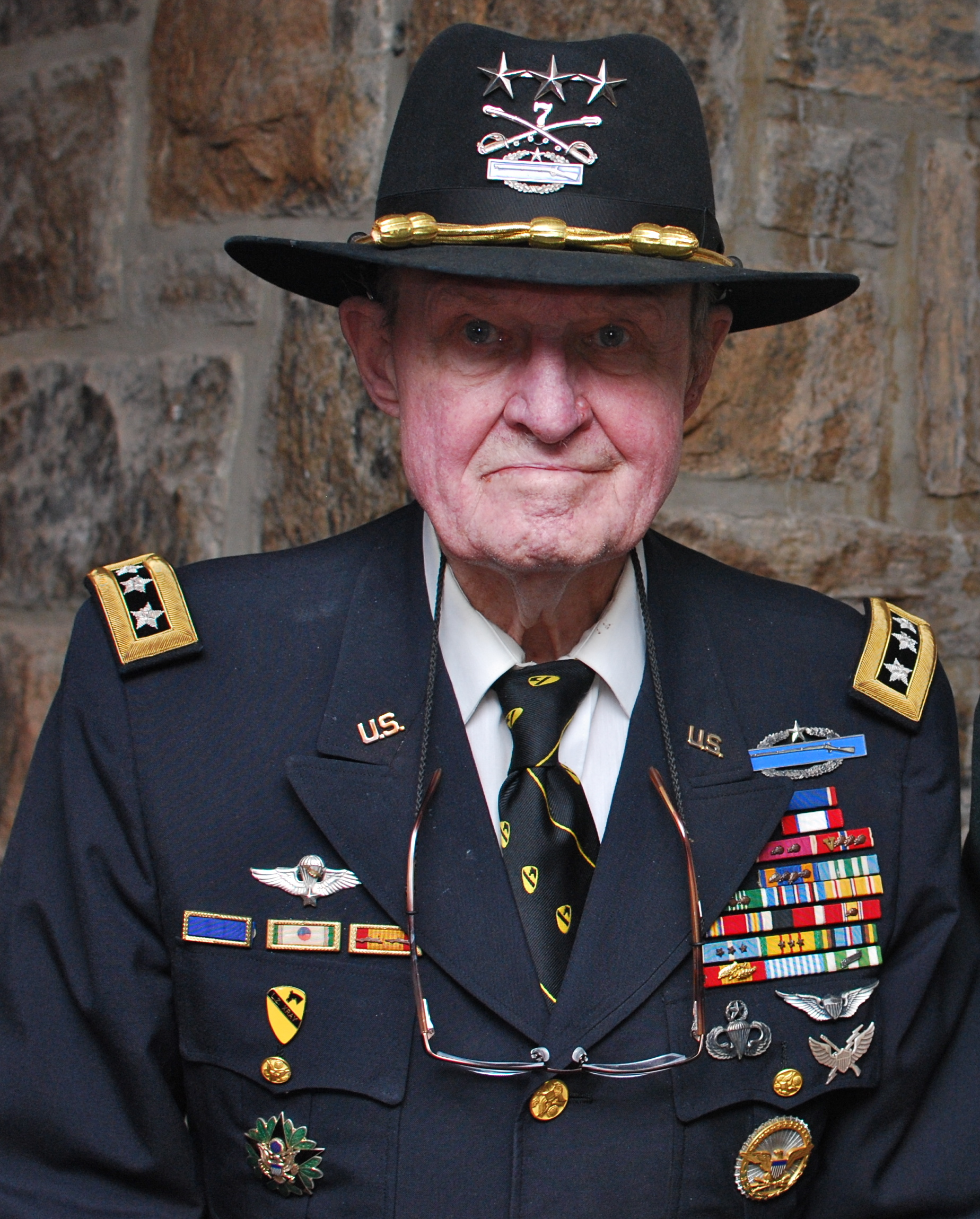 LTG(R) Hal Moore at the United States Military Academy at West Point on 10 May 2010